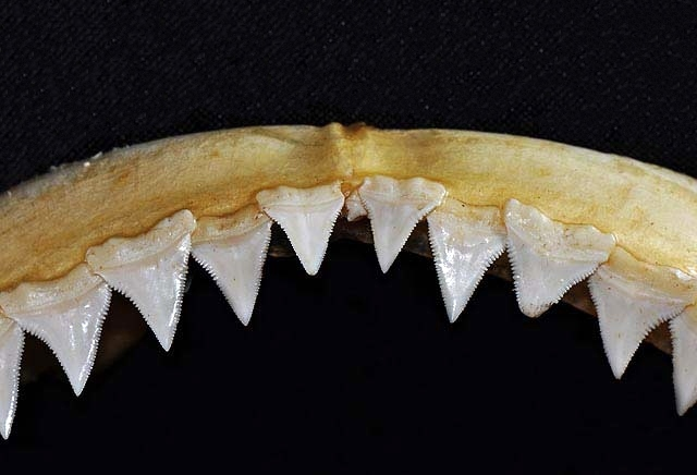 Carcharhinus longimanus